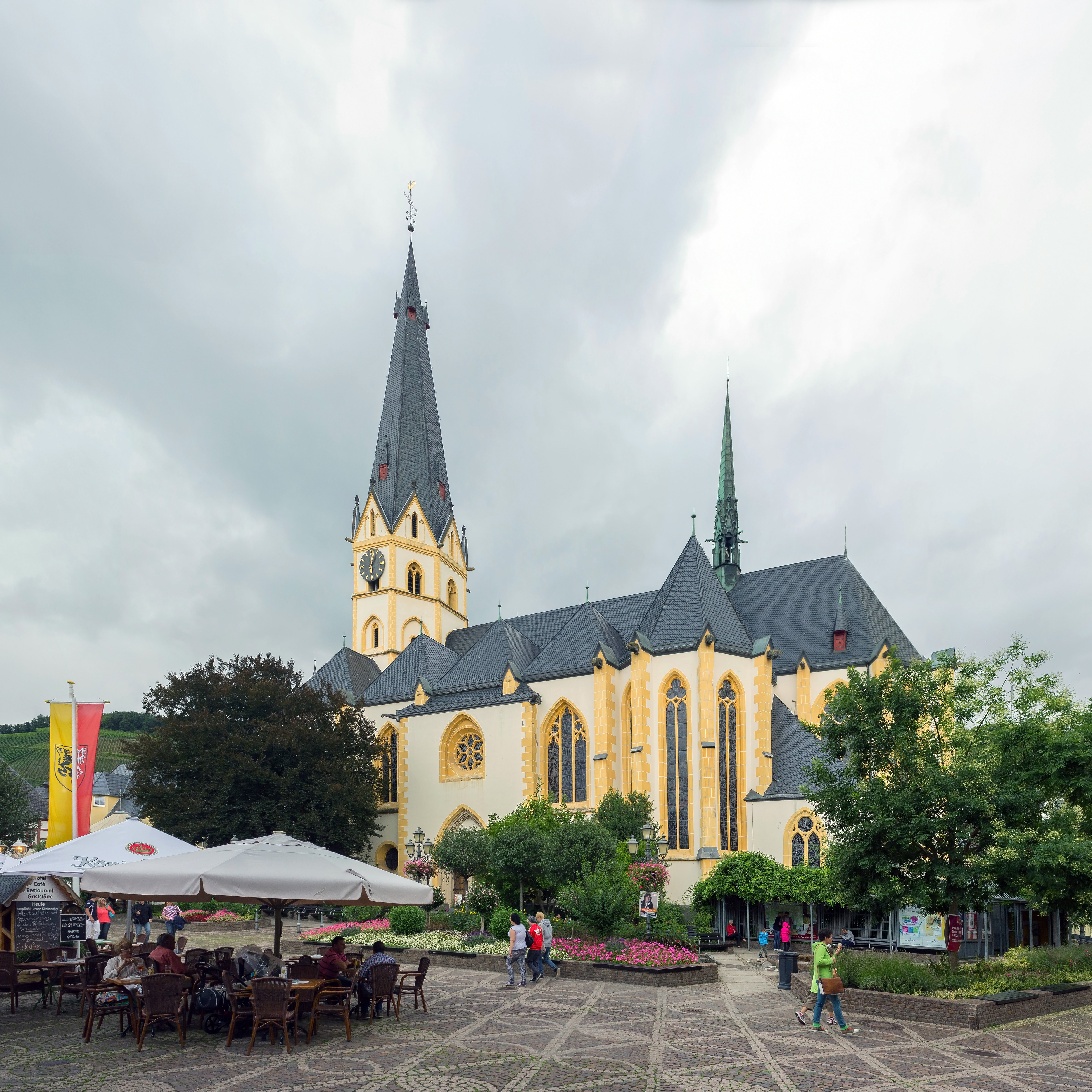 St. Laurentius Kirche in Ahrweiler